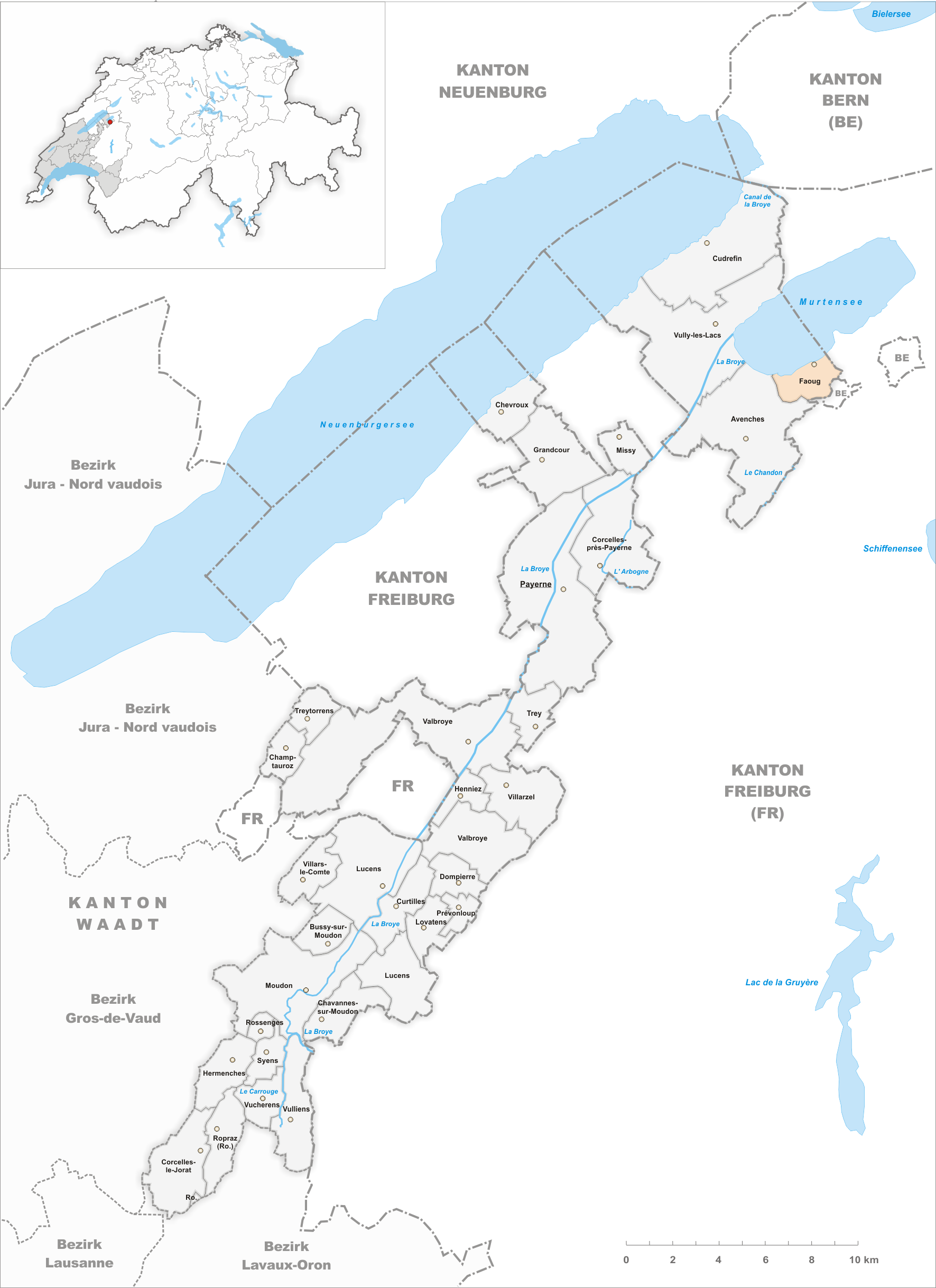 Municipality Faoug